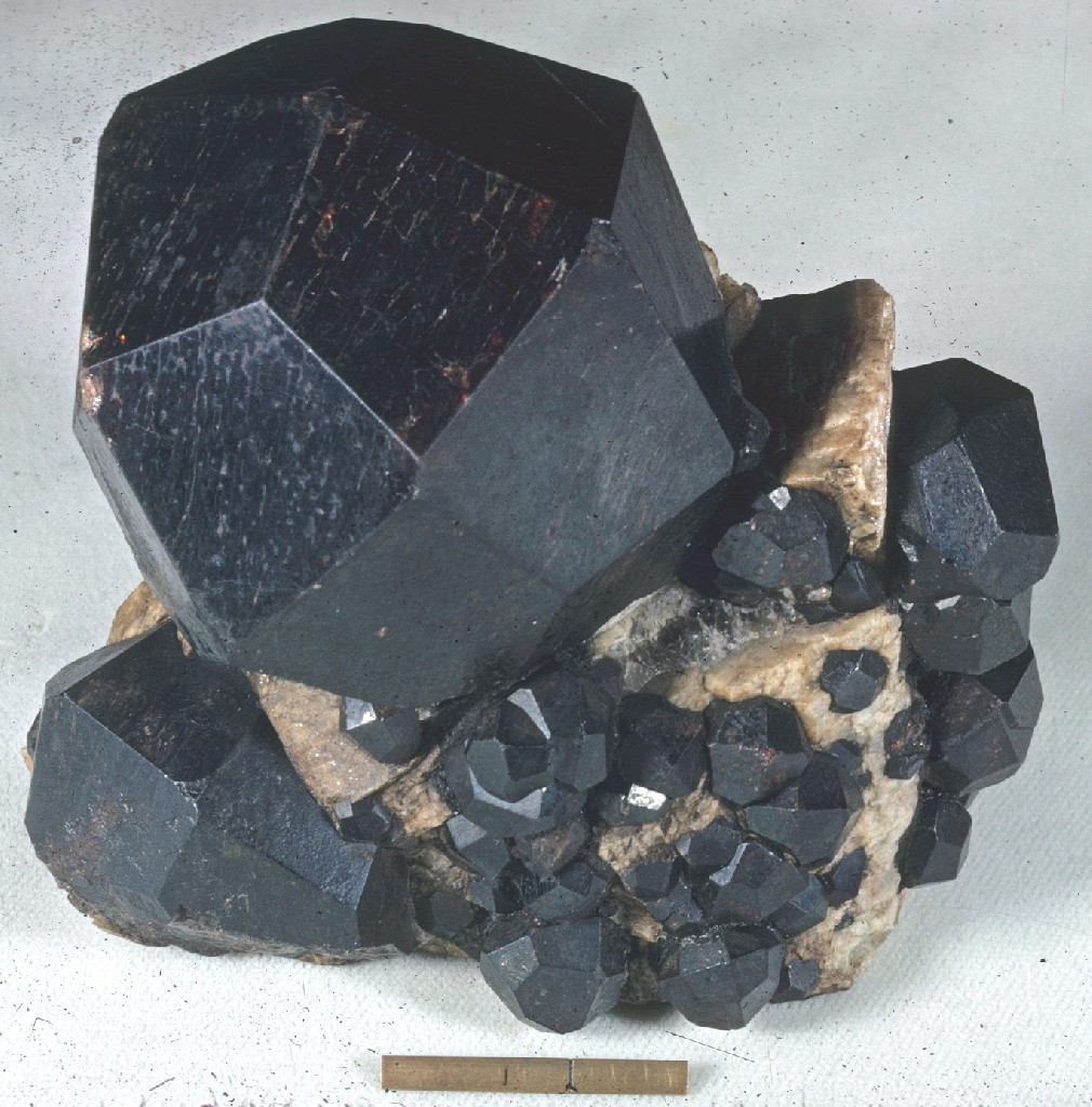 Almandine crystals on matrix - Locality: Russell Garnet mine, Russell, Hampden Co., Massachusetts, USA - Specimen is from the collection of Ernest Weidhaas 1972 - Scale at bottom of image is one inch with a rule at one cm.